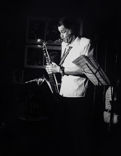 Dexter Gordon (cropped version) June 1977